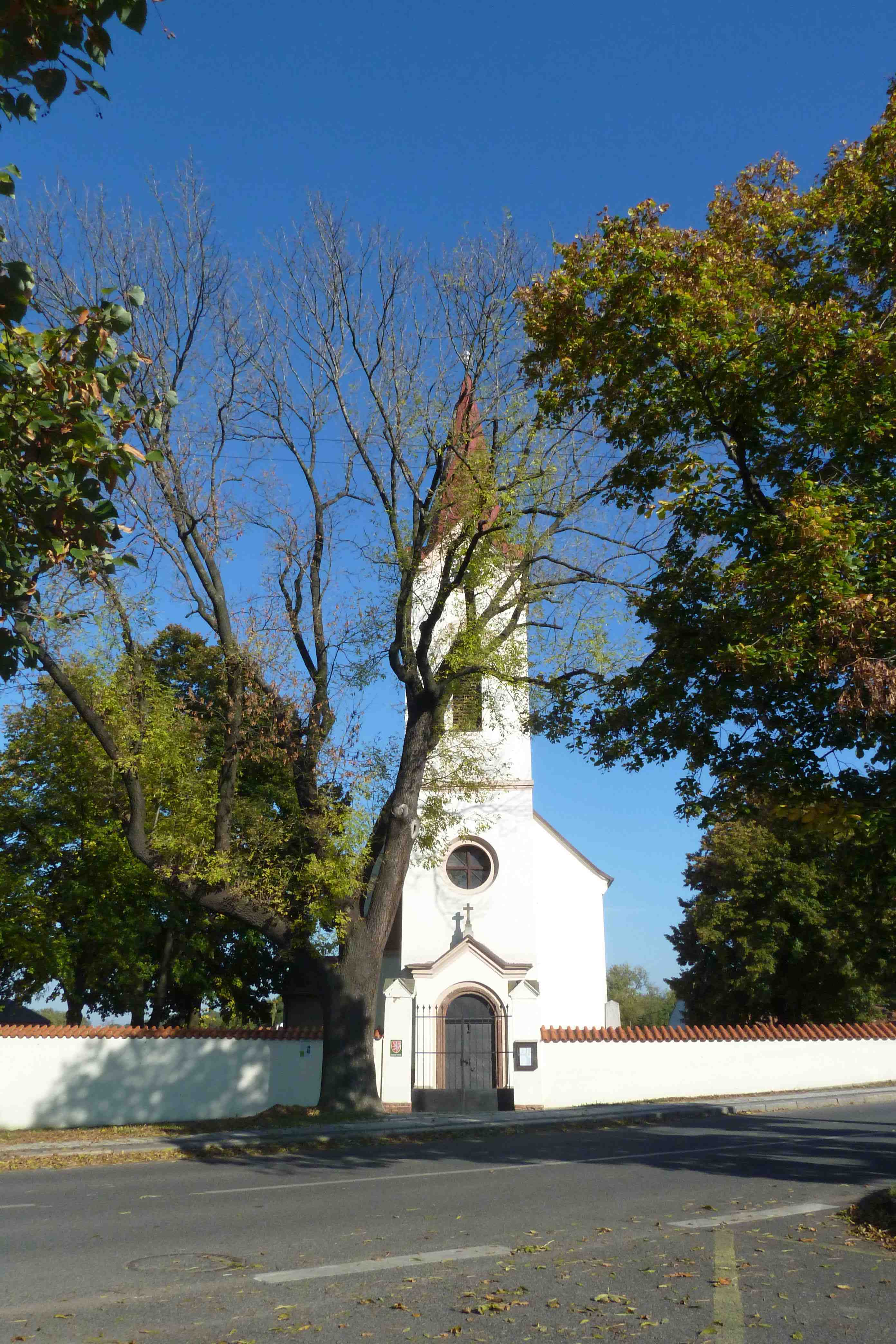 Common ash tree in Dubeč - Czech Republic